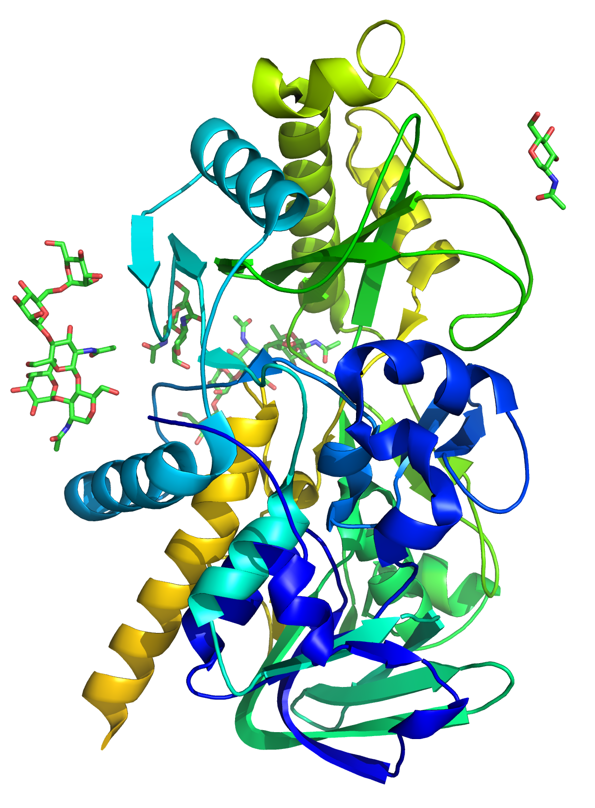 Model of mandelonitrile lyase, rendered from data in PDB entry 1JU2 using PyMol